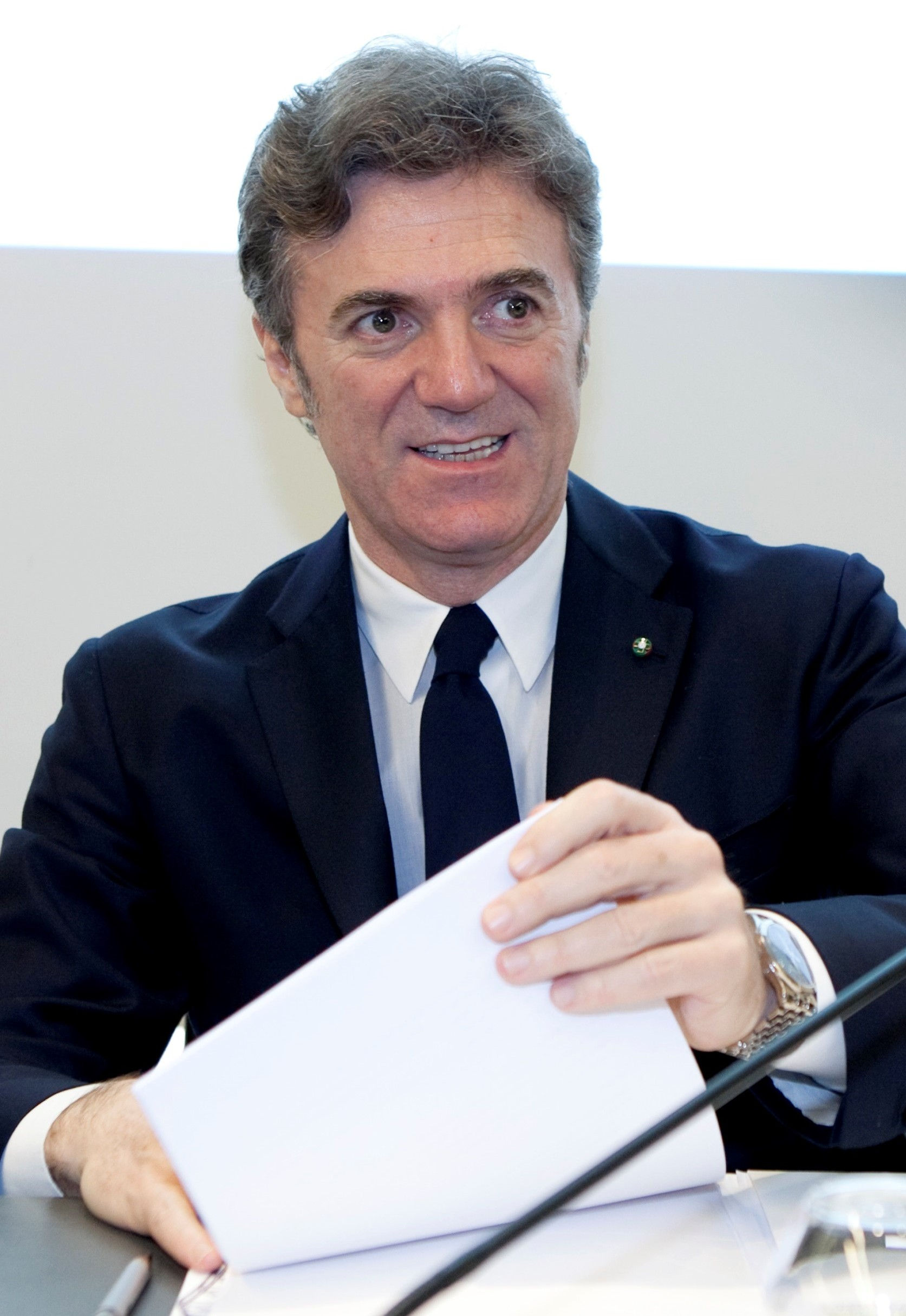 Flavio Cattaneo Assemblea degli azionisti